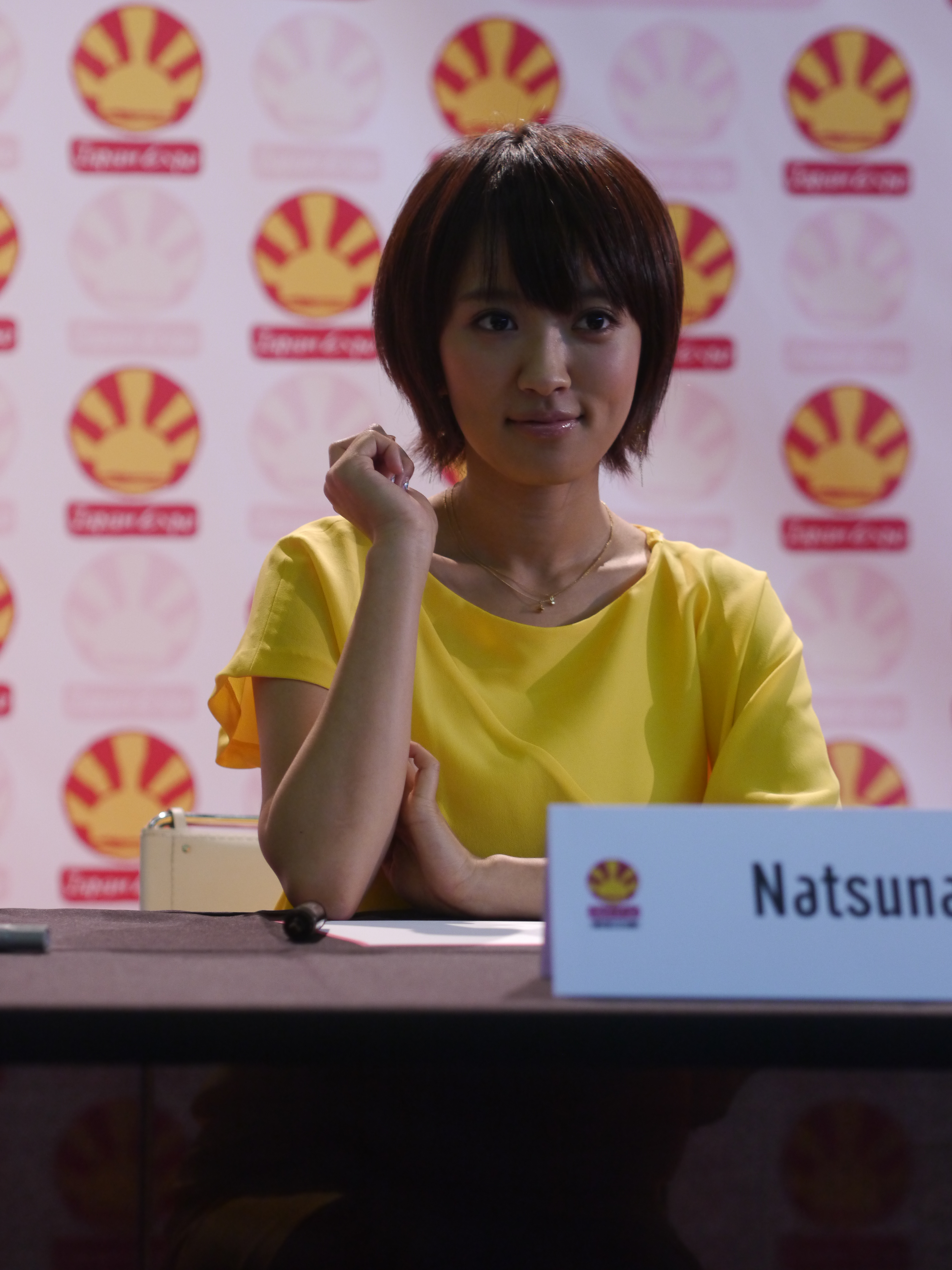 Japan Expo Festival, 14th impact